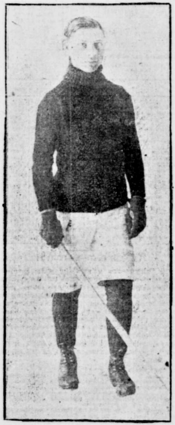 American ice hockey player Max Hornfeck of the New York Athletic Club ice hockey team.